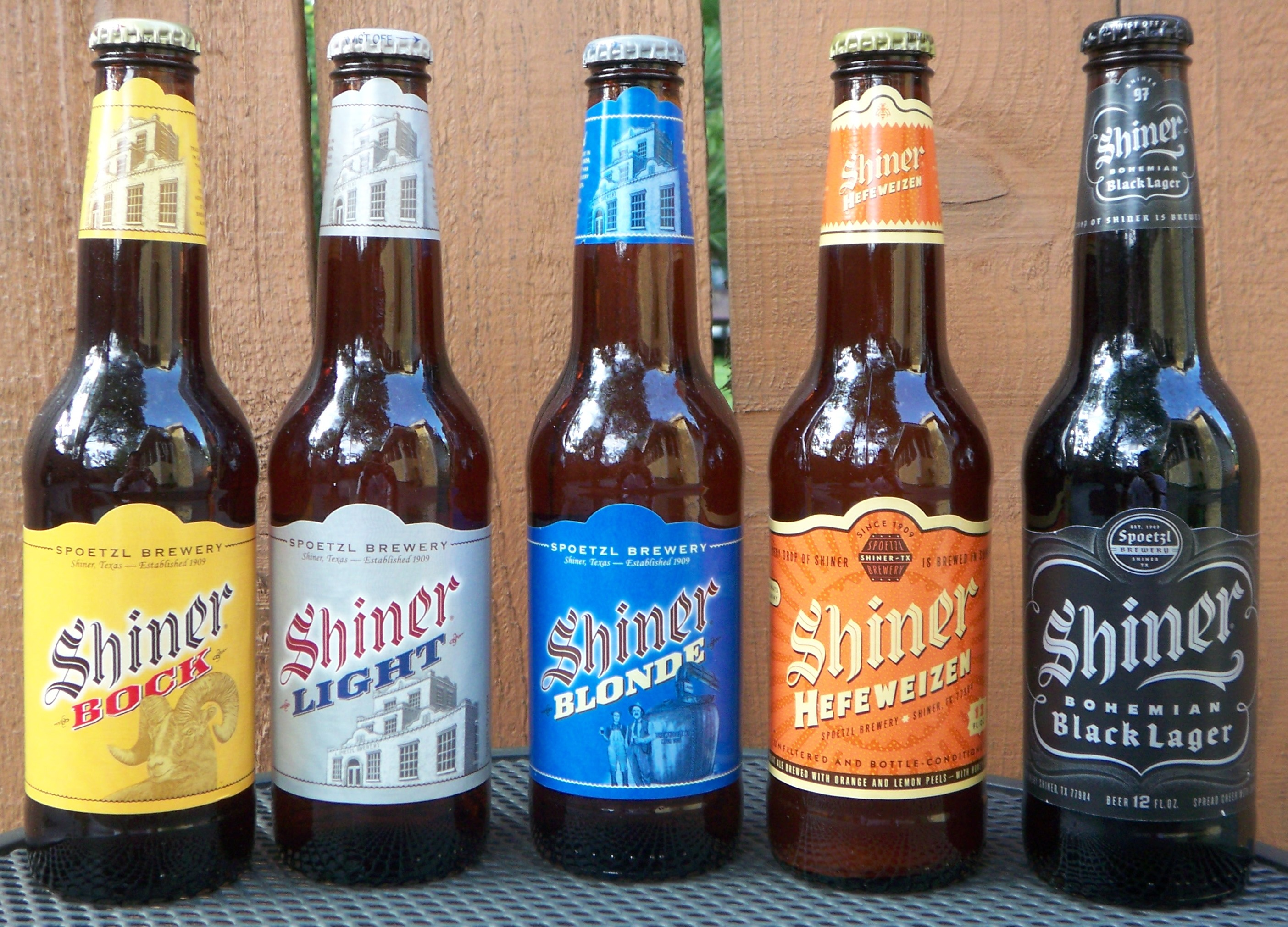 The Spoetzl Brewery's current lineup of beers.